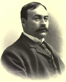 William Henry Drummond Source: An Encyclopedia of Canadian biography. Containing brief sketches and steel engravings of Canada's prominent men (Volume 1) Publisher: Montreal Canadian Press Syndicate Date: 1904-07 Possible Copyright Status: NOT_IN_COPYRIGHT